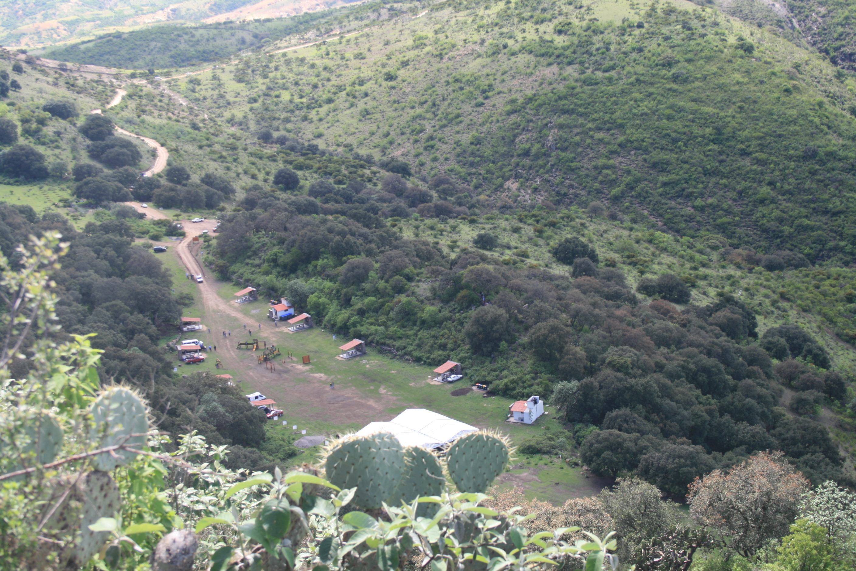 Vista of Joya La Barreta Park — in the Municipality of Querétaro, Querétaro state, Mexico.